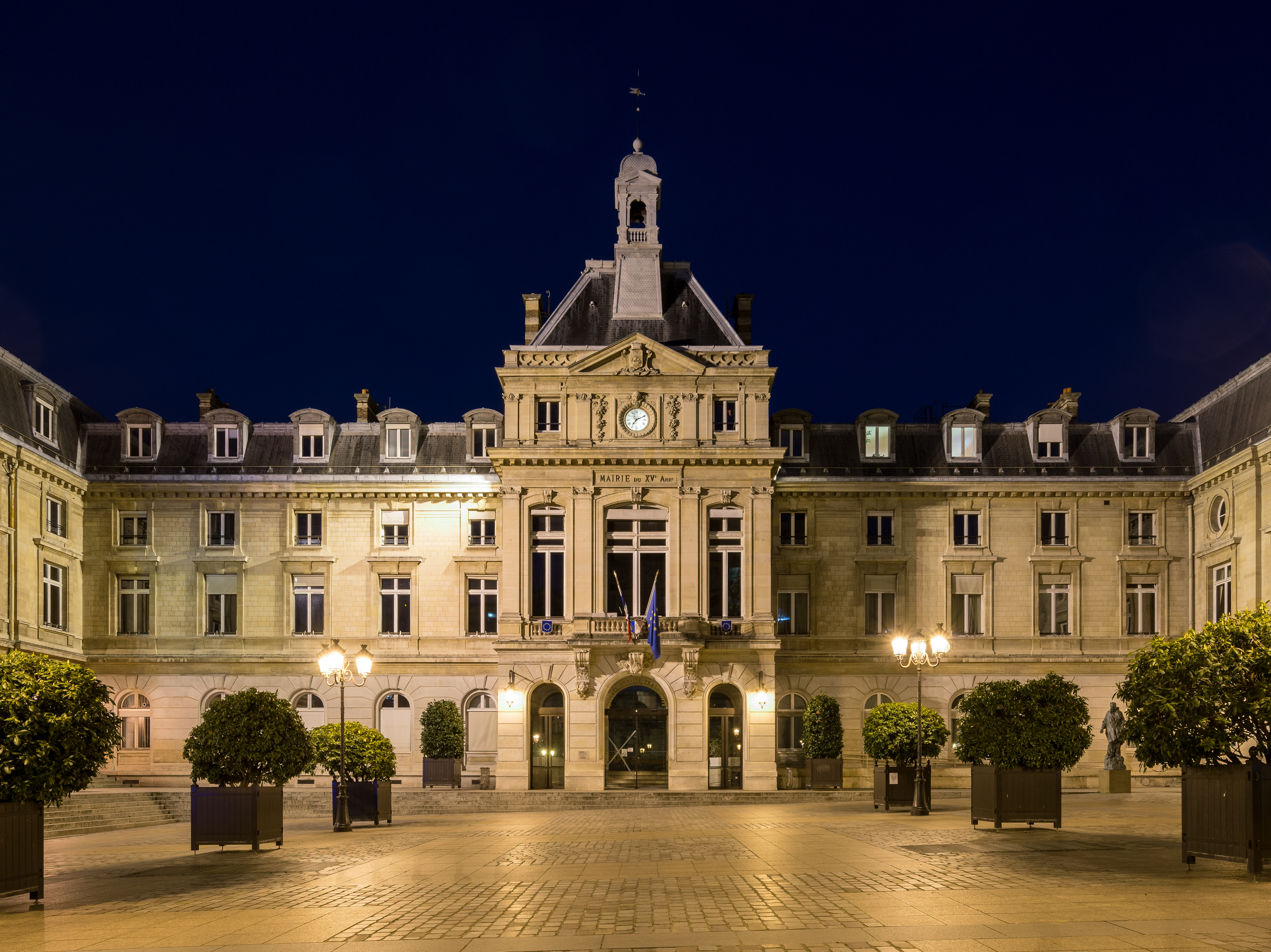 The city hall of the 15th Arrondissement of Paris, seen at night